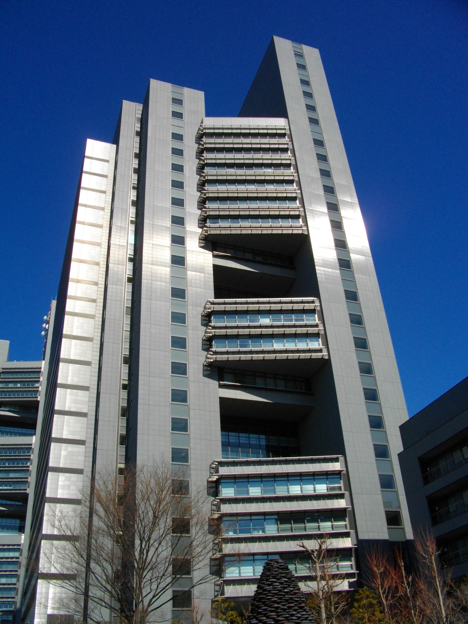 Saitama-Shintoshin National Government Building Tower-2